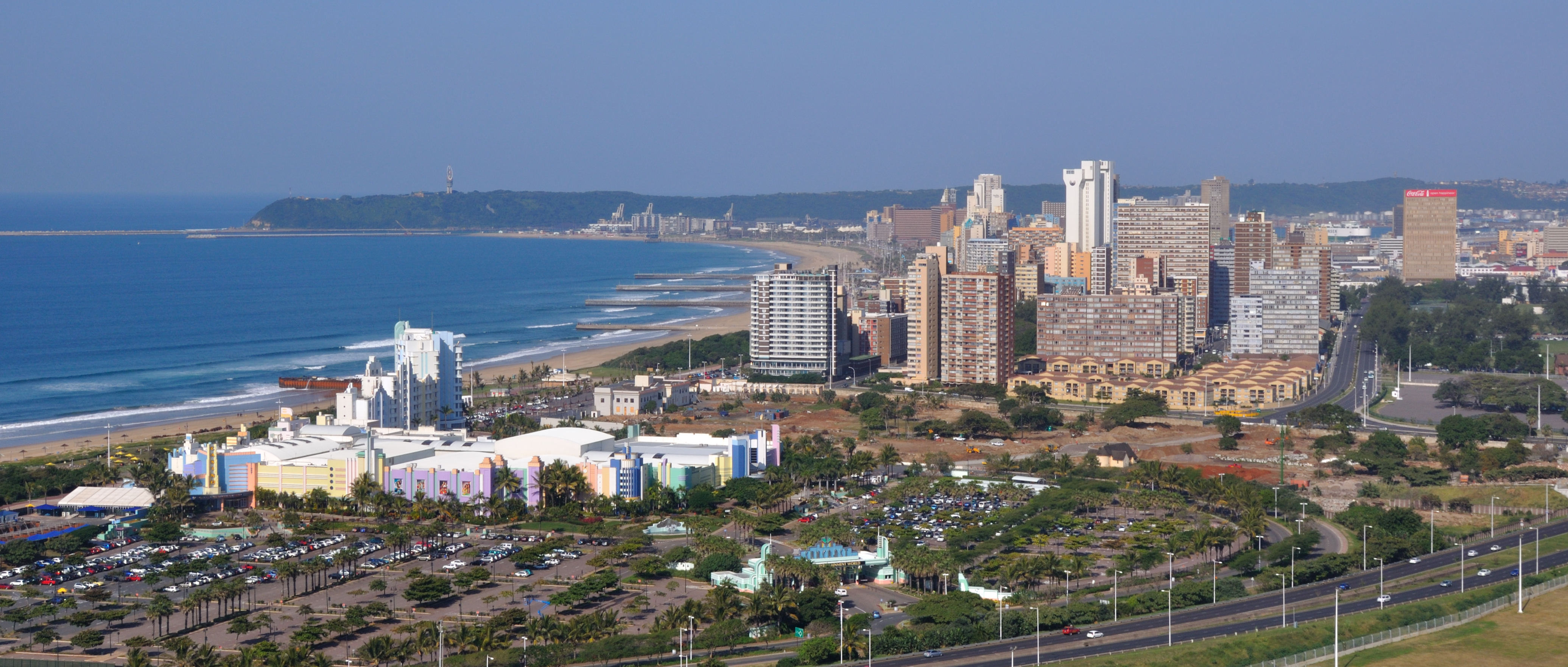 South Africa, view from the top of Moses Mabhida Stadion